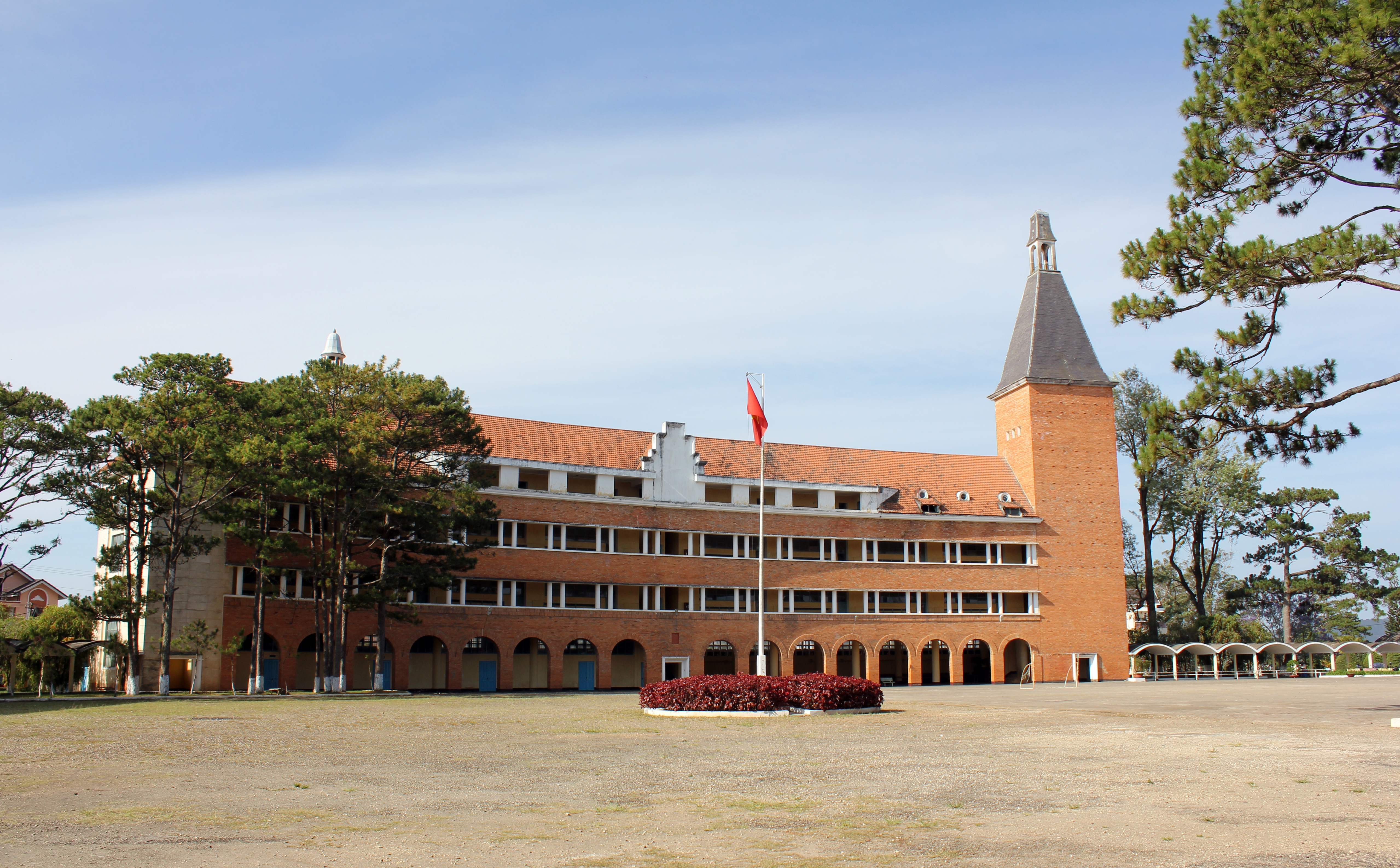 Pedagogical College of Da Lat, The Main Building.